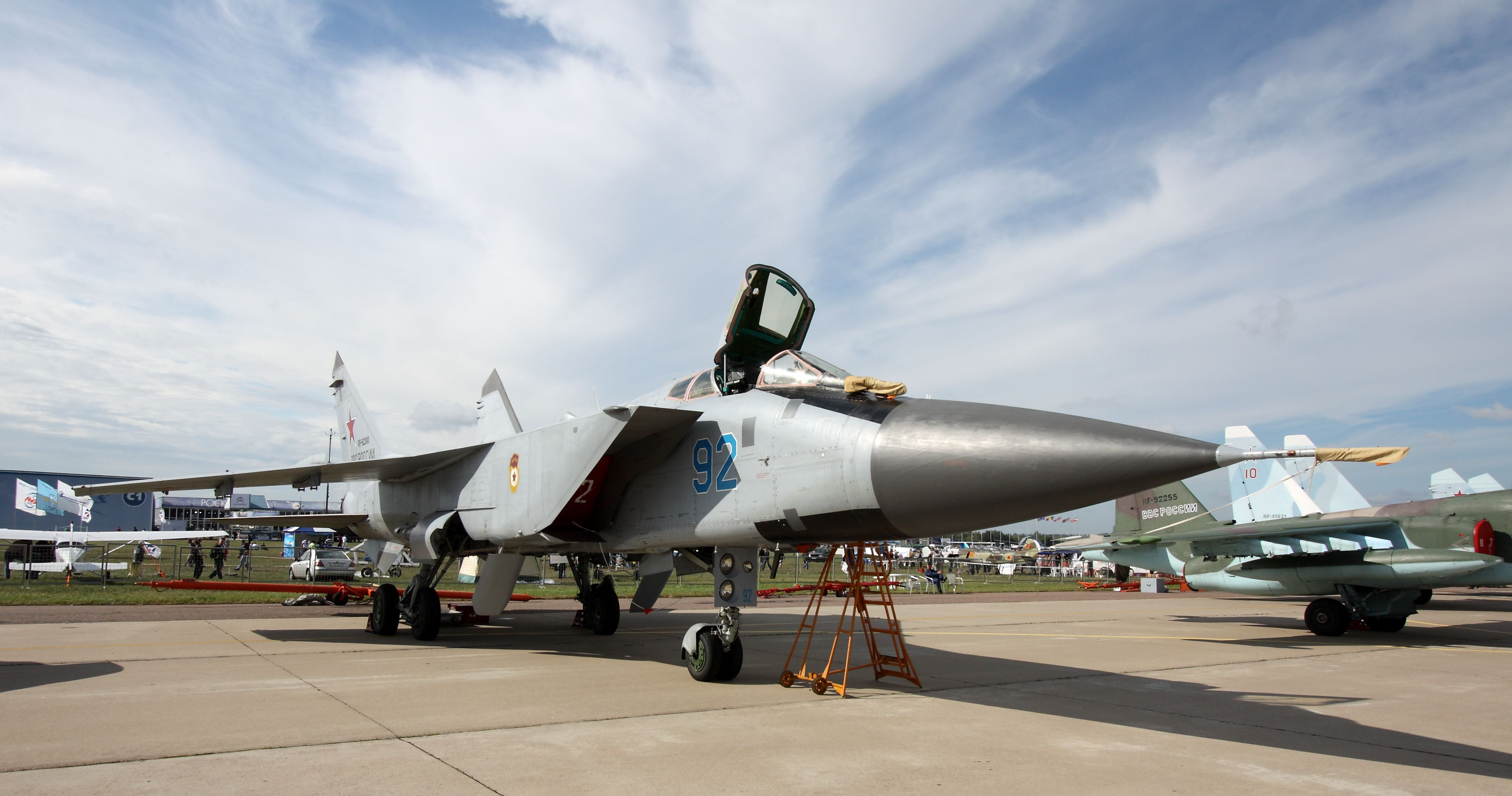 Fighter interceptor Mikoyan-Gurevich MiG-31BM (The international aerospace salon MAKS-2011)